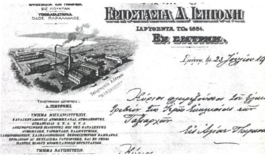 An old business letter depicting the Issigonis factory in Smyrna (now Izmir) in 1910. It was published in my book "Made in Greece", by L.S. Skartsis and G.A. Avramidis, Typorama, Patras (2003).